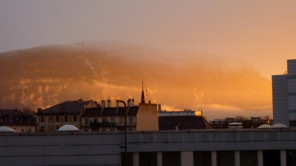 Morning in Chêne-Bourg, near Geneva, Switzerland